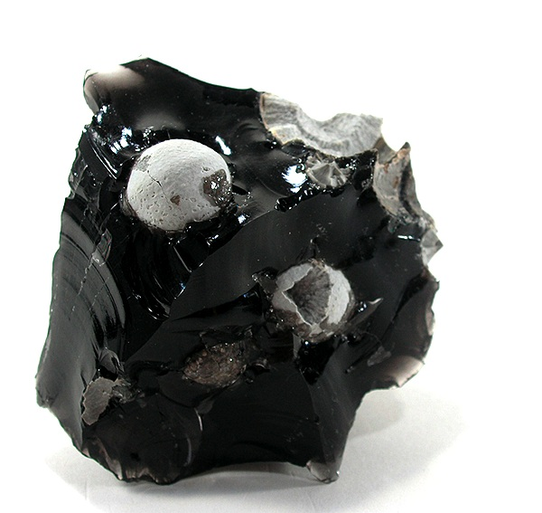 Cristobalite, obsidian Locality: Canyon Butte occurrence (Couger Butte), Canyon Butte, Siskiyou County, California, USA (Locality at ) This is another unusual specimen of cristobalite on obsidian. The spheres of cristobalite are the result of devitrification of the obsidian. 6 x 5.9 x 2.5 cm